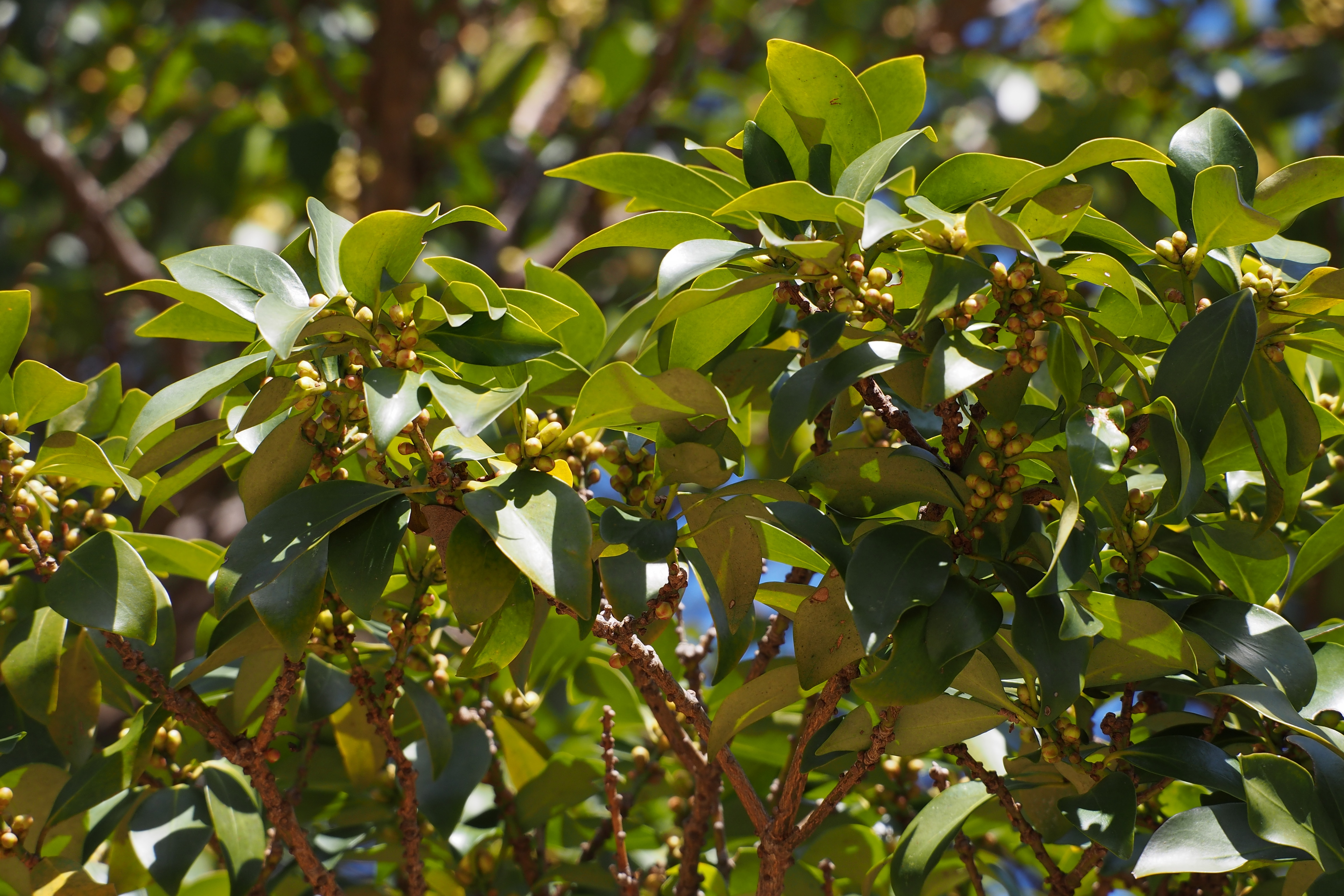 Japanese star anise (Illicium anisatum)